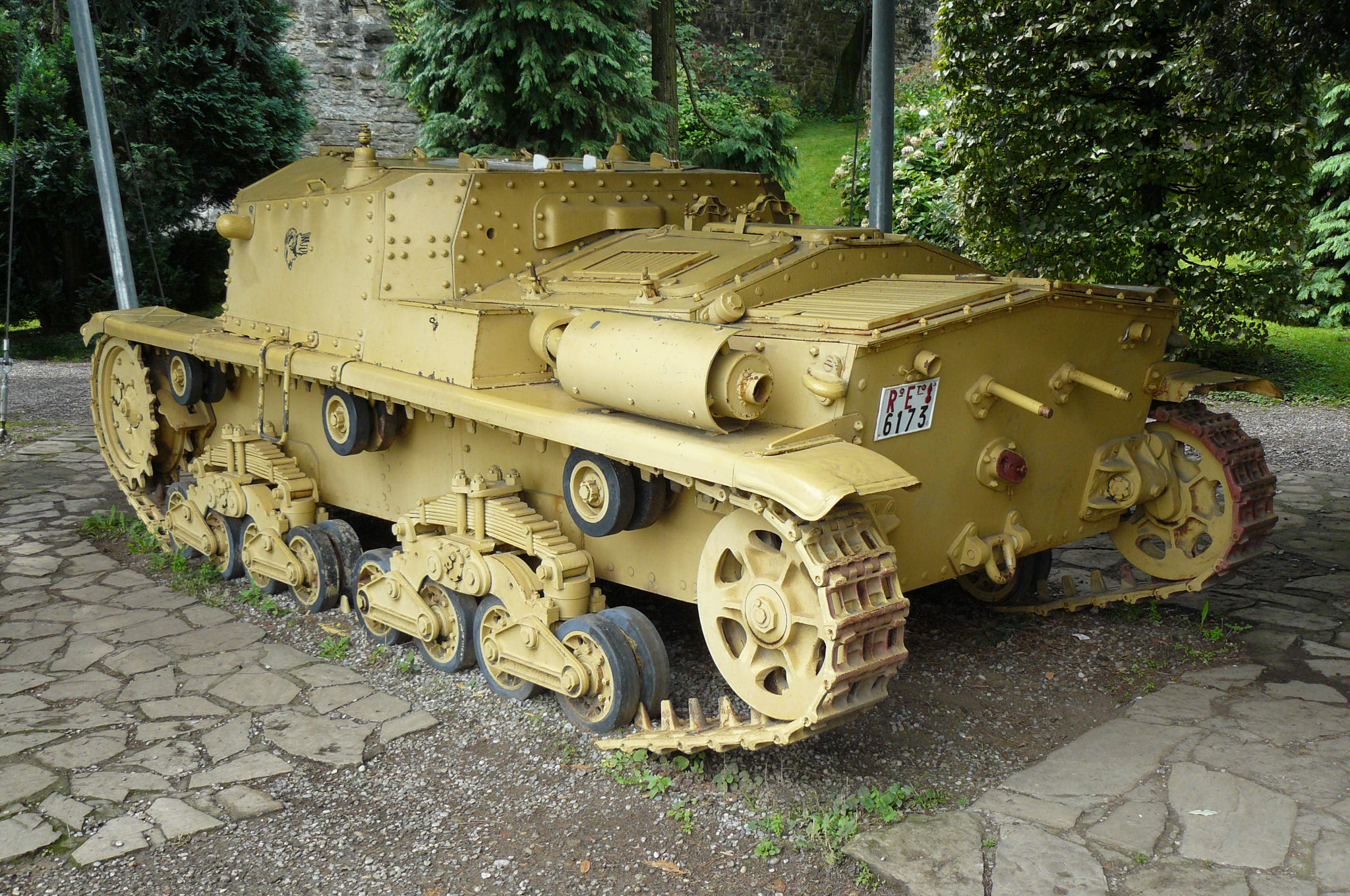 Rearview of Semovente 75/18 as displayed in Bergamo (Italy)